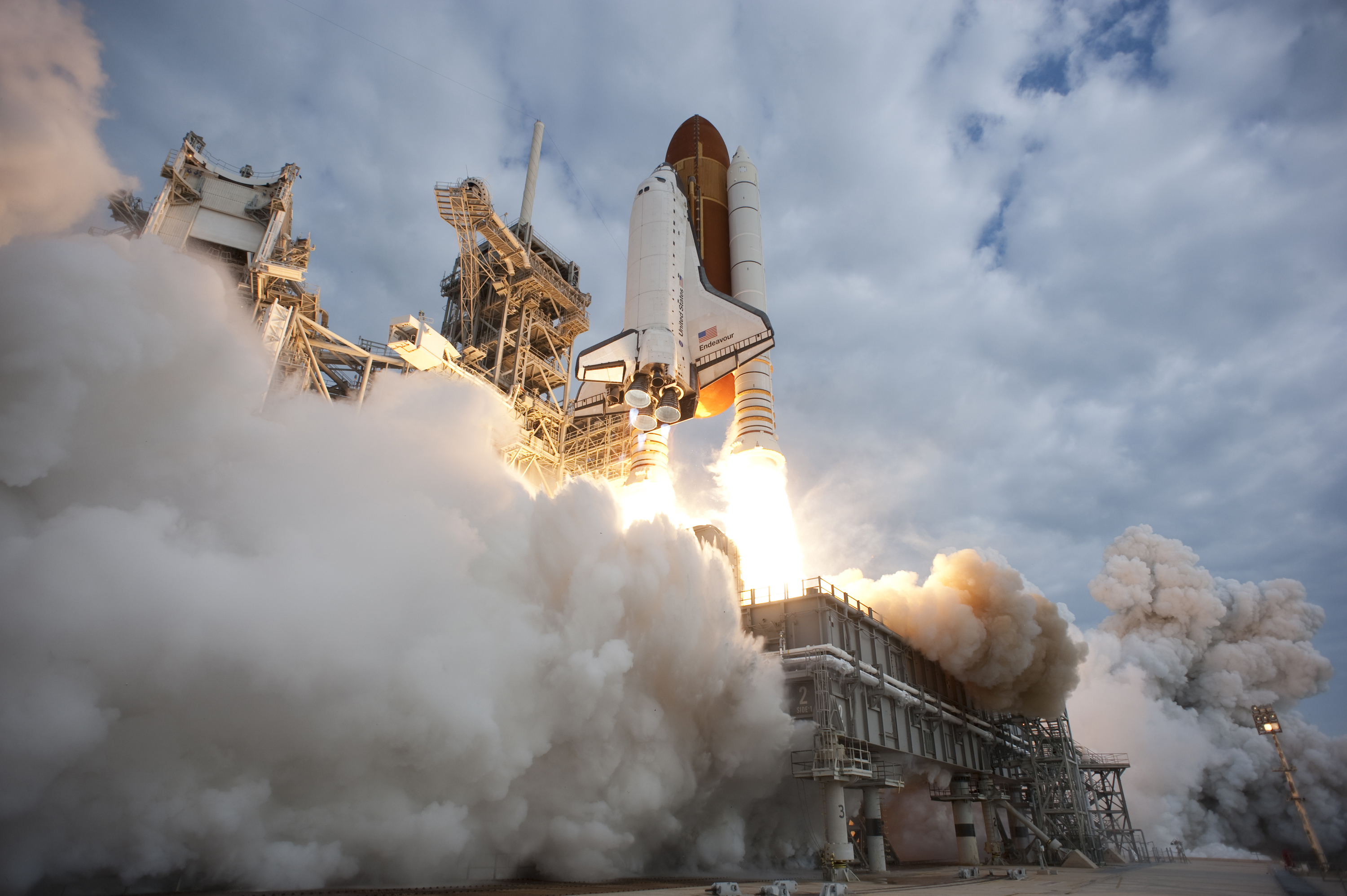 CAPE CANAVERAL, Fla. -- Space shuttle Endeavour rises on twin columns of flame from Launch Pad 39A at NASA's Kennedy Space Center in Florida. Endeavour began its final flight, the STS-134 mission to the International Space Station, at 8:56 a.m. EDT on May 16. Endeavour and its six-member crew will deliver the Alpha Magnetic Spectrometer-2 (AMS), Express Logistics Carrier-3, a high-pressure gas tank and additional spare parts for the Dextre robotic helper to the space station.